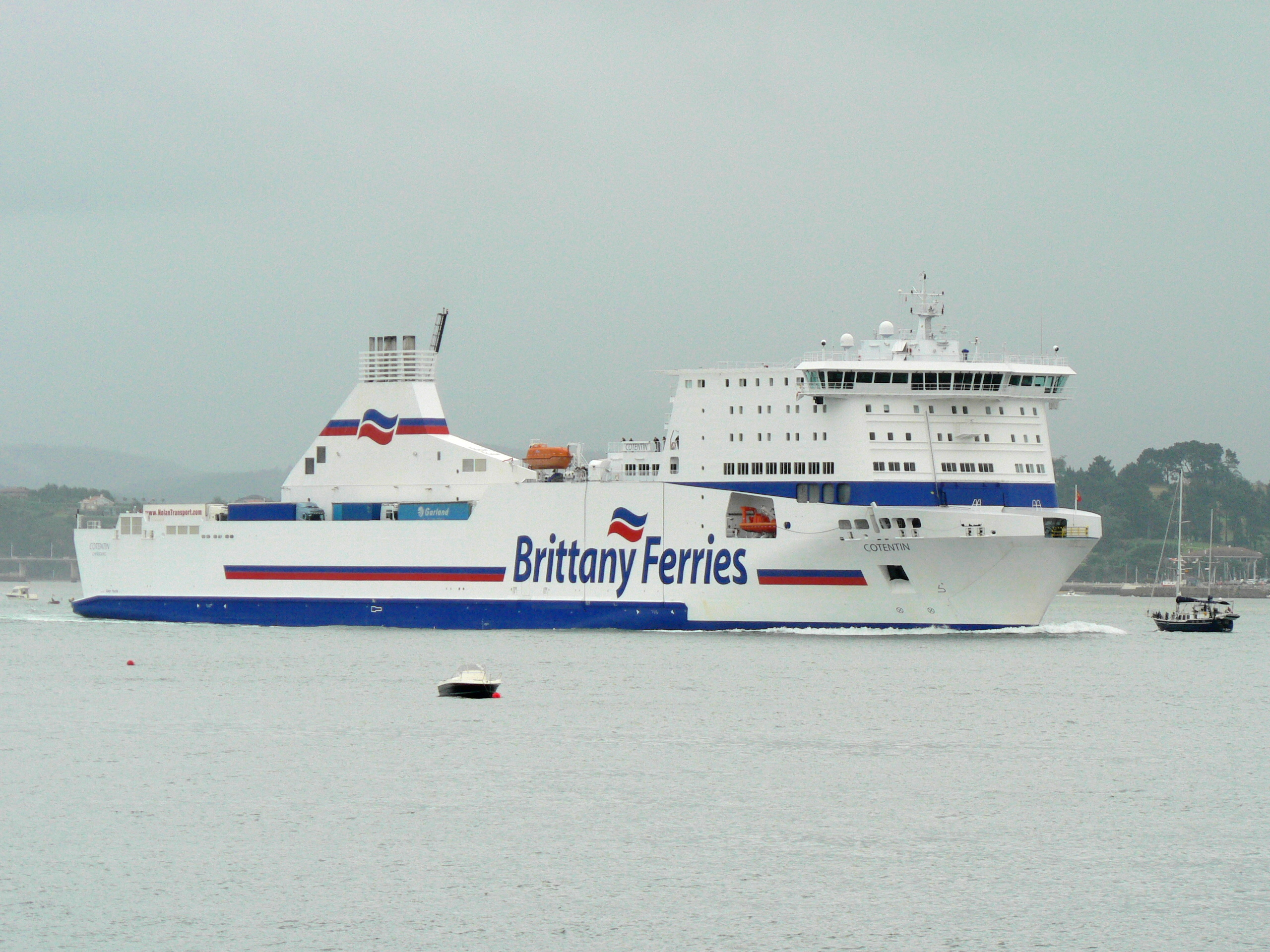 Brittany Ferries Cotentin entering Santander bay (Spain, 2010)